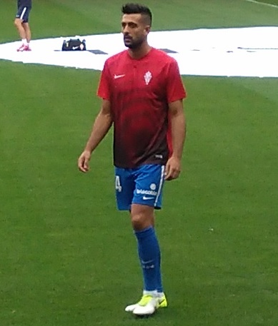 Álex Pérez, Spanish footballer, warming up with Sporting Gijón (cropped from original, made by myself)